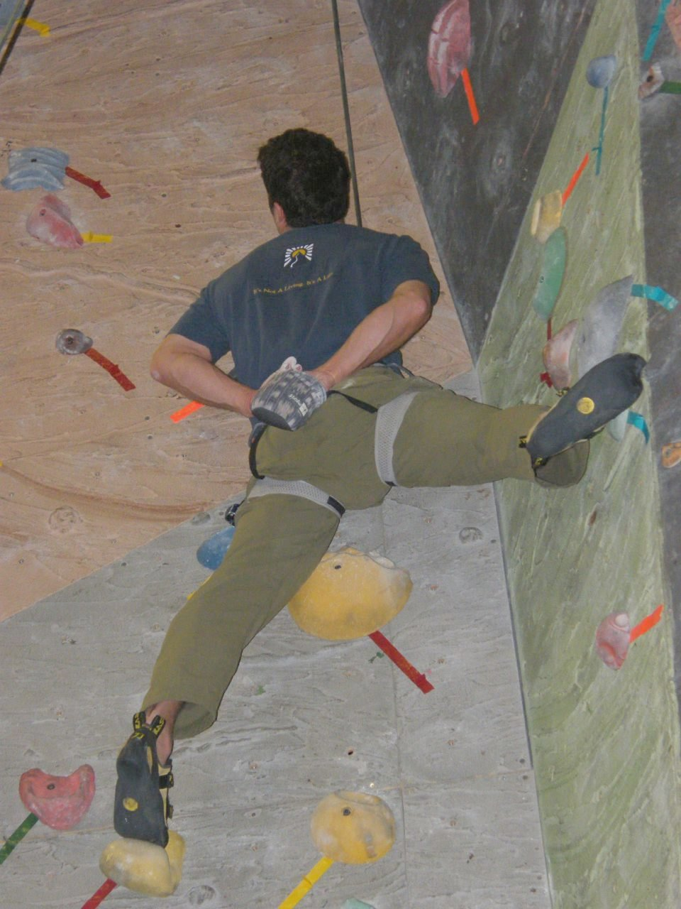 Marlowe, no hands rest and chalk up